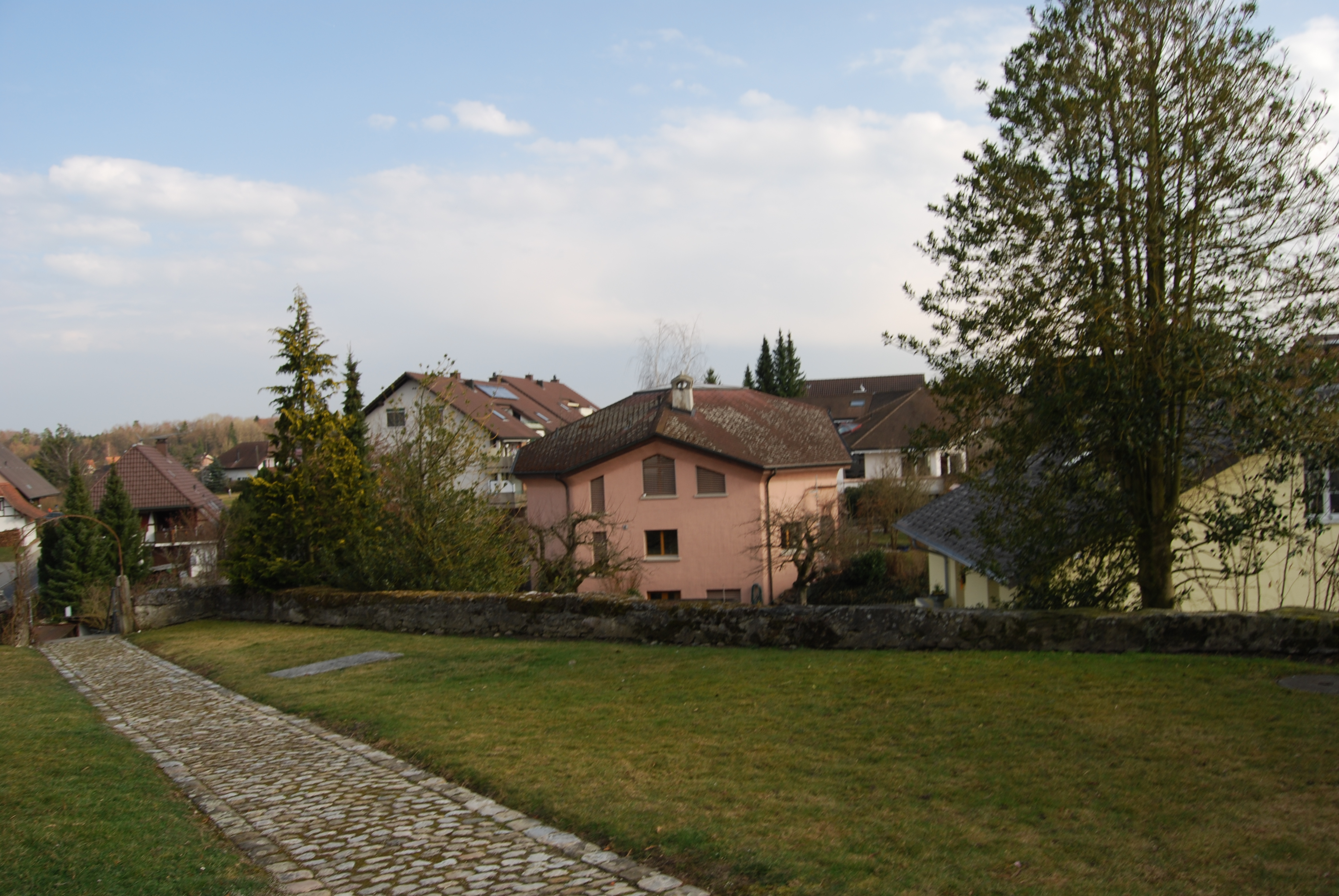 Thunstetten, canton of Bern, SwitzerlandEsperanto: Thunstetten, Kantono Berno, Svislando